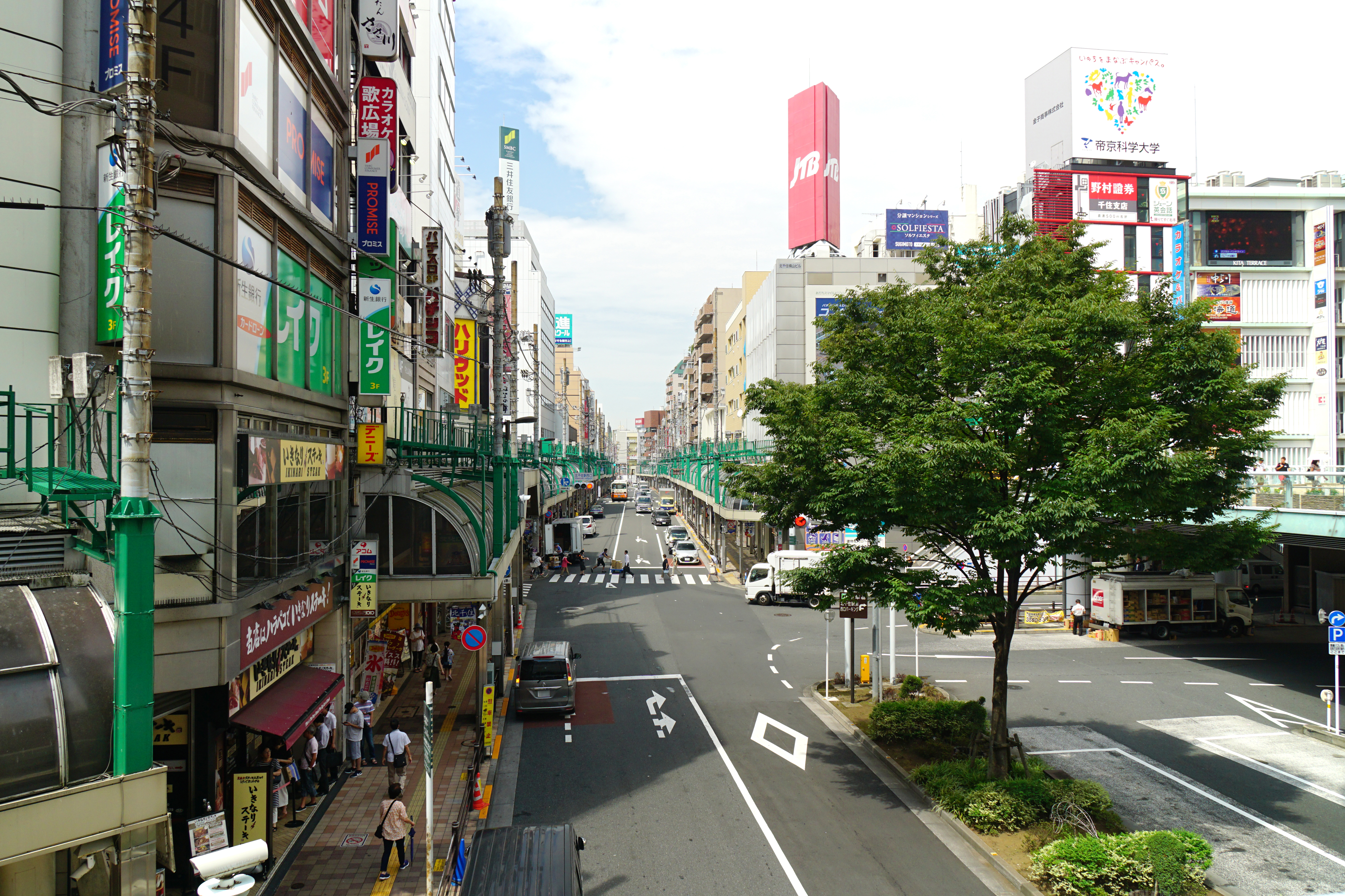 At Kita-Senju in Adachi-ku, Tokyo, Tochigi prefecture, Japan